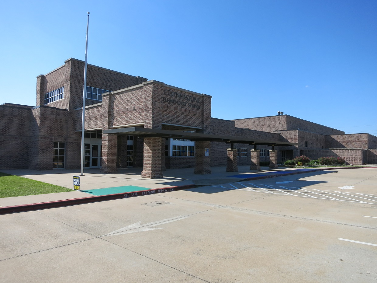 Photo shows Cornerstone Elementary School at 1800 Chatham Avenue, Sugar Land, TX 77479. It is part of the Fort Bend Independent School District. View is toward the northwest.